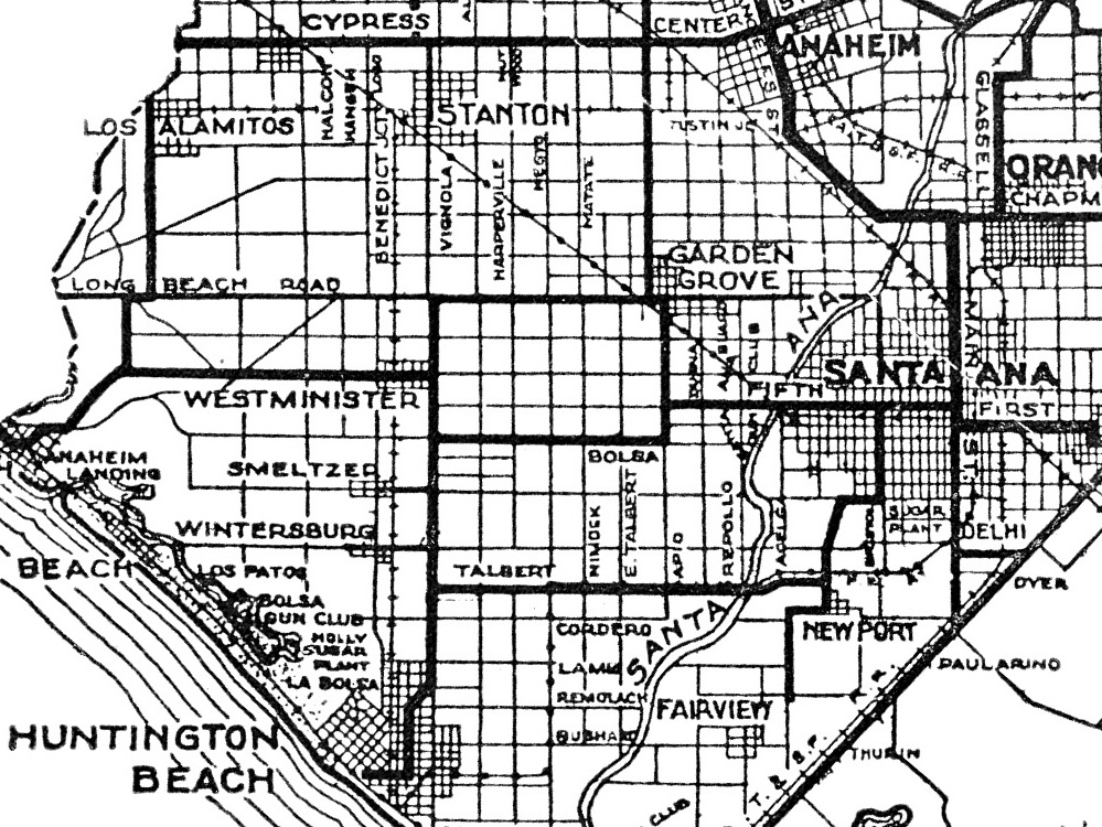 Photo cropped from photo of Orange County map, 1921, Orange County, California, United States from the 1921 promotional brochure, "Orange County California, Nature's Prolific Wonderland - Spring Eternal." Rights Advisory: No known restrictions.